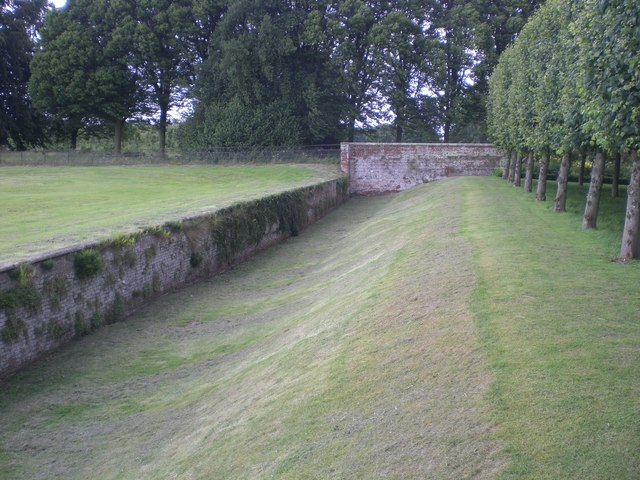 Ha Ha, Houghton Hall Whether it was this one, I don't know, but Horace Walpole, the son of Robert Walpole who built the present Houghton Hall and laid out the park, says that one of the first gardens with a Ha Ha was his father's at Houghton, To the right is the edge of a square plantation of boxed limes planted in 1949 (this is the topiary feature mentioned in Geograph ).